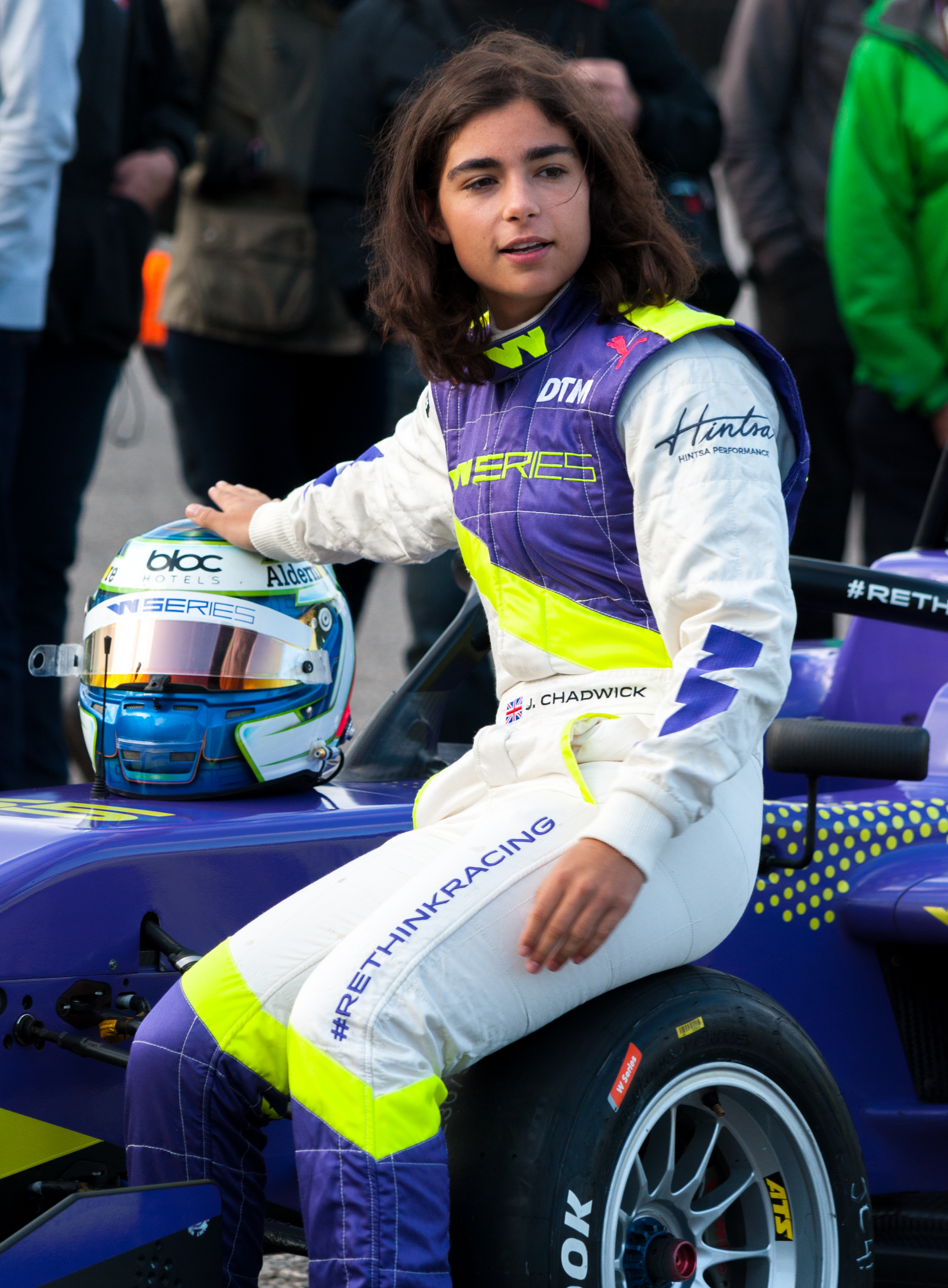 Jamie Chadwick at the W Series final at Brands Hatch